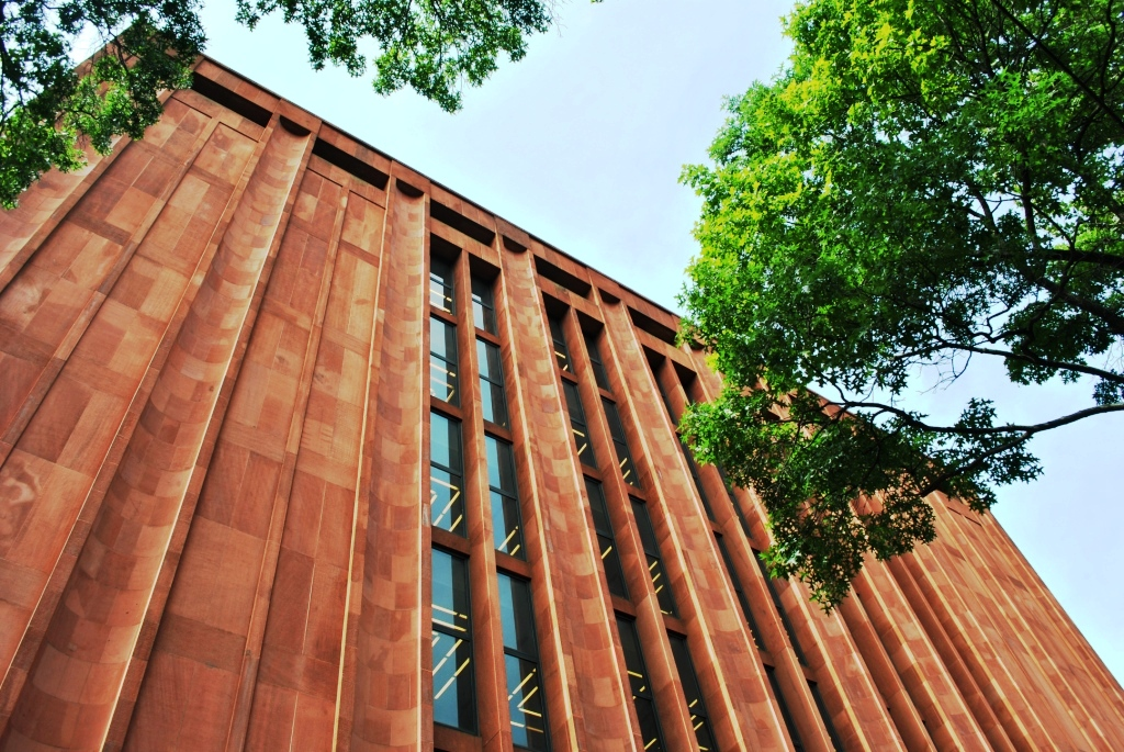 New York University, Elmer Holmes Bobst Library